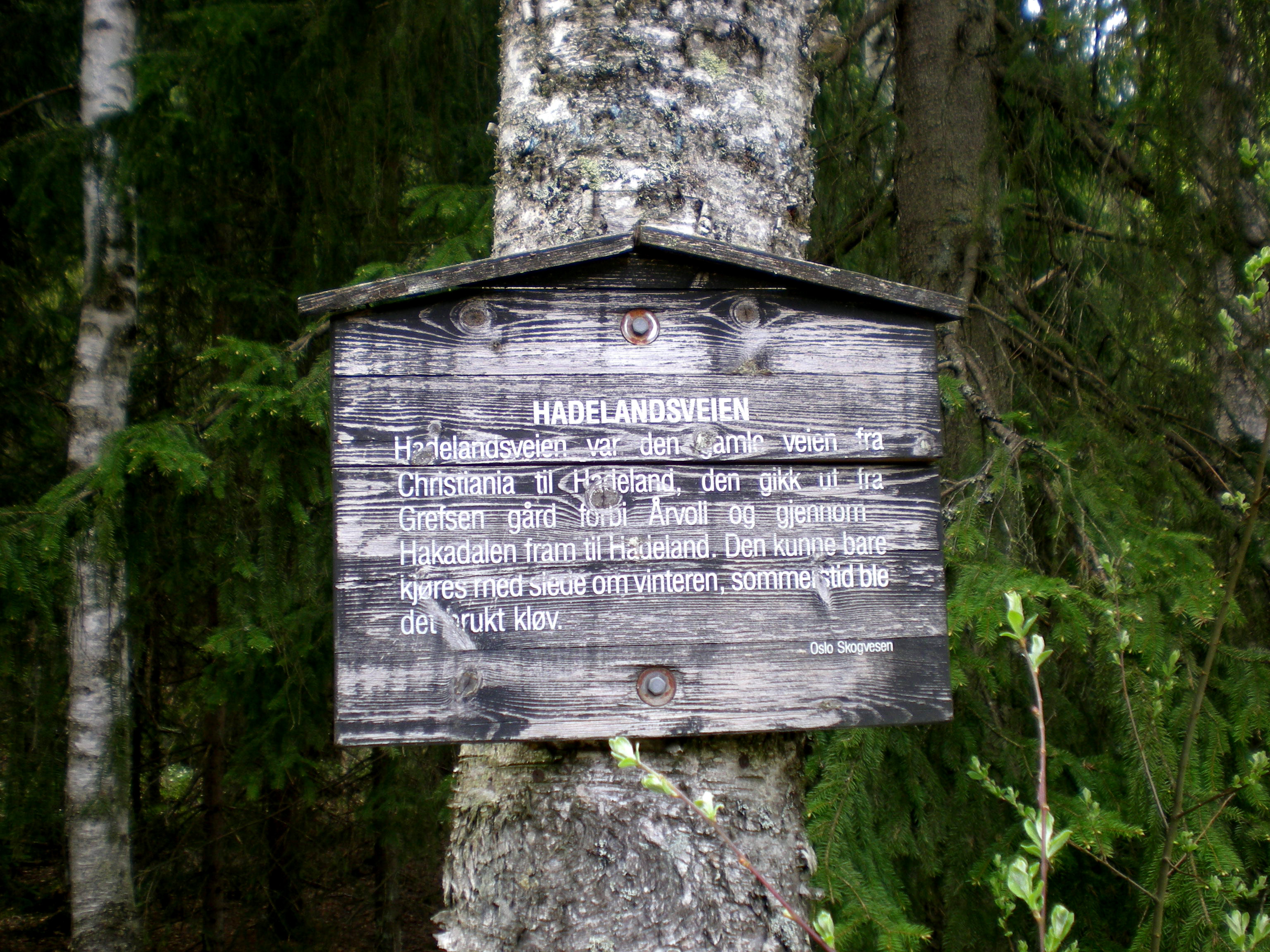 Information board in Lillomarka, Oslo